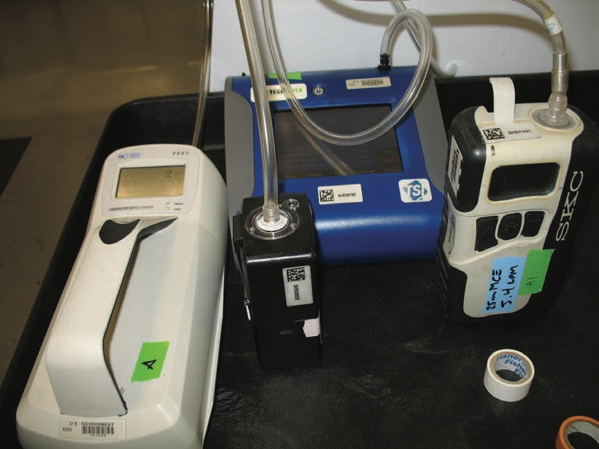 Figure 18. Area sampling for airborne nanomaterials. Exposure assessment and control verification approaches can be performed with traditional industrial hygiene sampling methods that include the use of samplers placed at static locations (area sampling). Filter-based samples can be used to identify the nanomaterial of interest with electron microscopy and elemental analysis. The instruments shown here include a condensation particle counter, aerosol photometer, and two air sampling pumps for filter-based analysis.